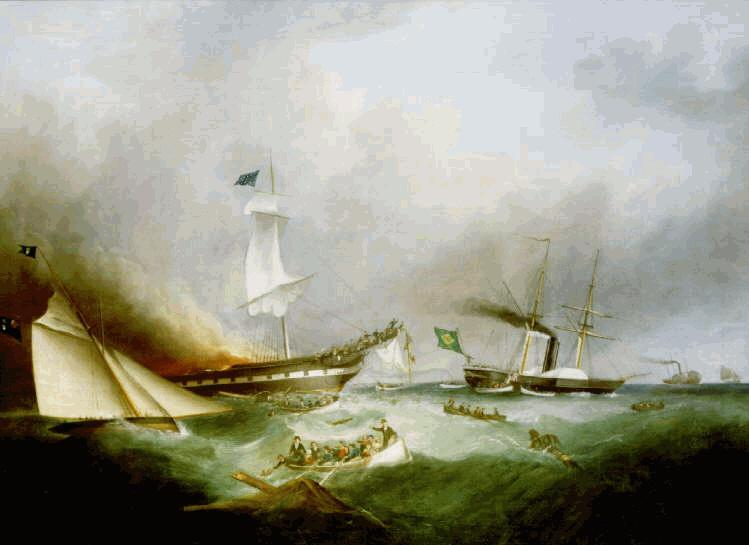 Burning of Ocean Monarch off the Great Orme, 24 August 1848